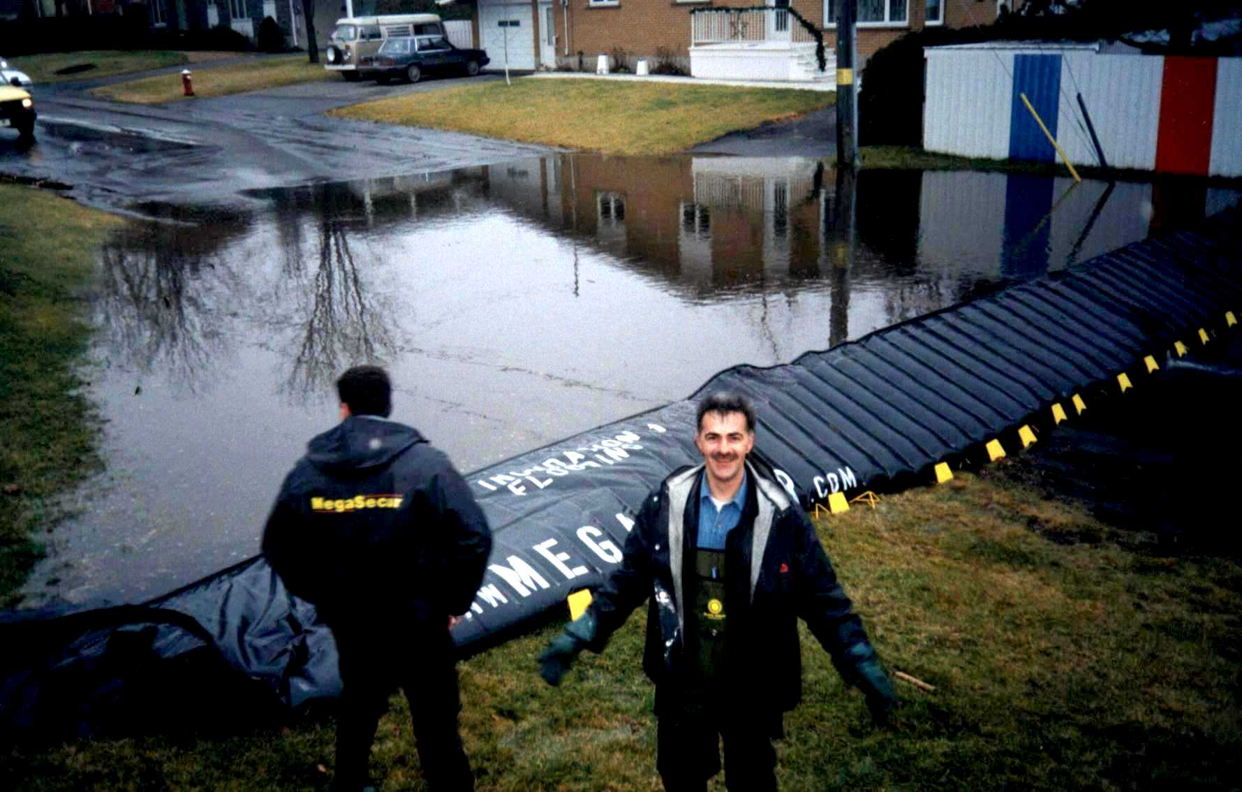 Daniel Dery